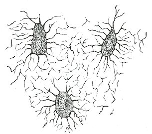 Nucleated bone cells and their processes, contained in the bone lacunÃ¦ and their canaliculi respectively. From a section through the vertebra of an adult mouse. (Klein and Noble Smith.)